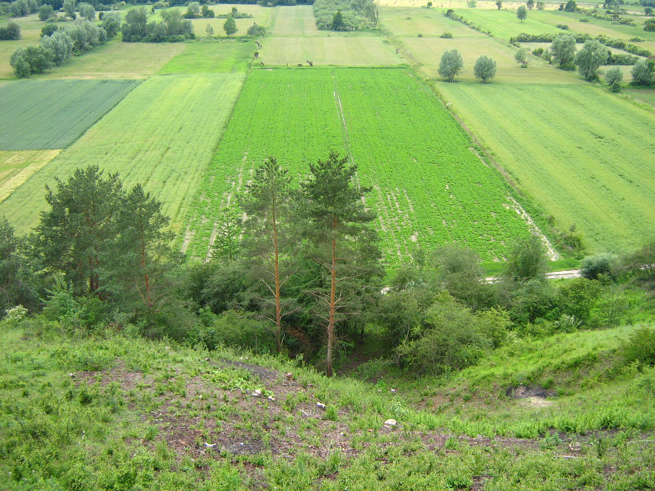 Zbocza Płutowskie Nature Reserve (Plutowo Cliff). Vistula valley. Downward (i.e. westward) view.